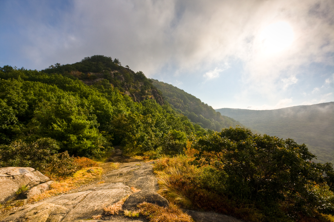 Breakneck Ridge is a popular scramble in the Hudson Highlands in New York. Today it served as part of a training hike for me. July 2010.